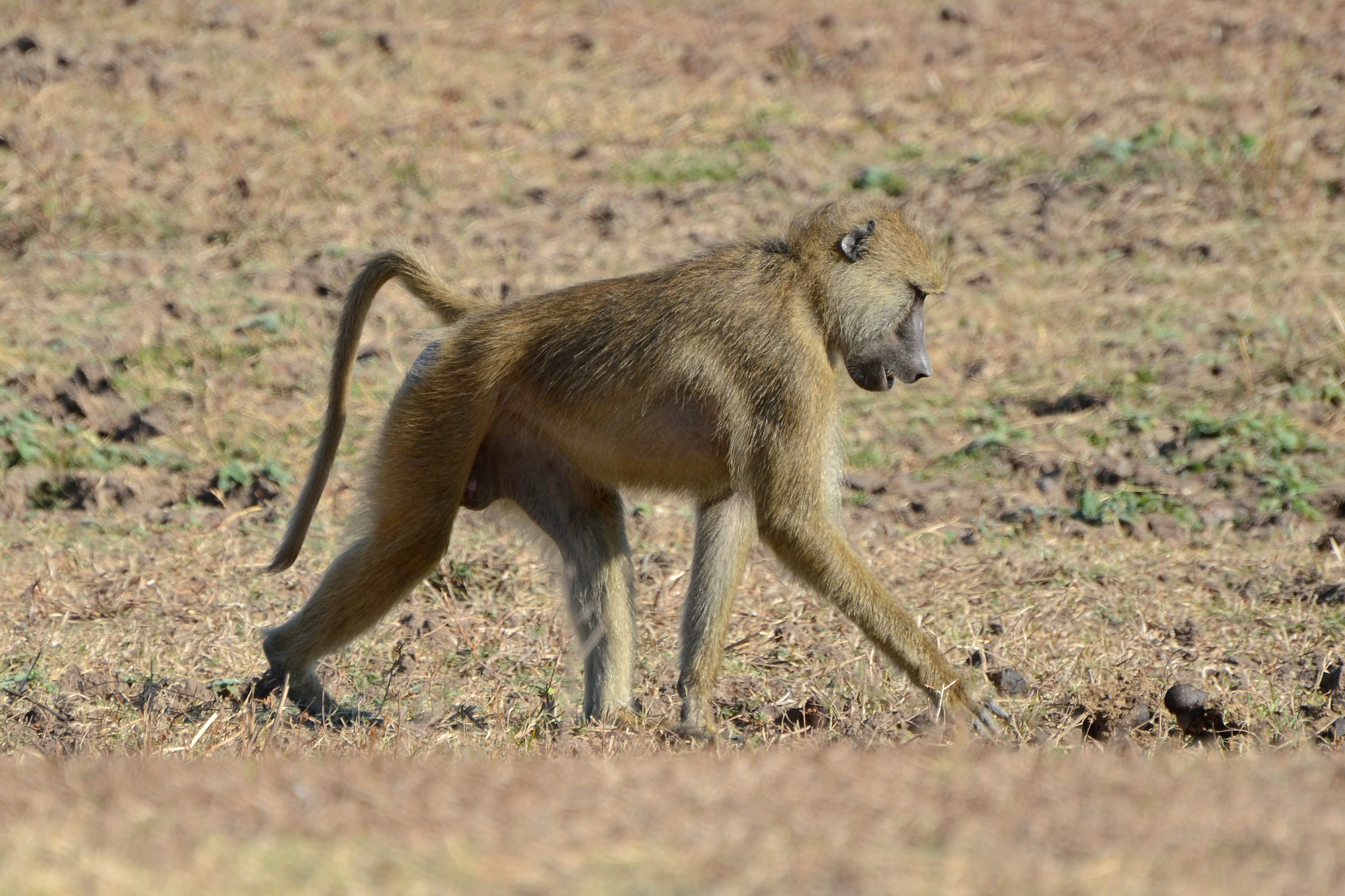 A baboon (Papio cynocephalus) in South Luangwa National Park, Zambia.